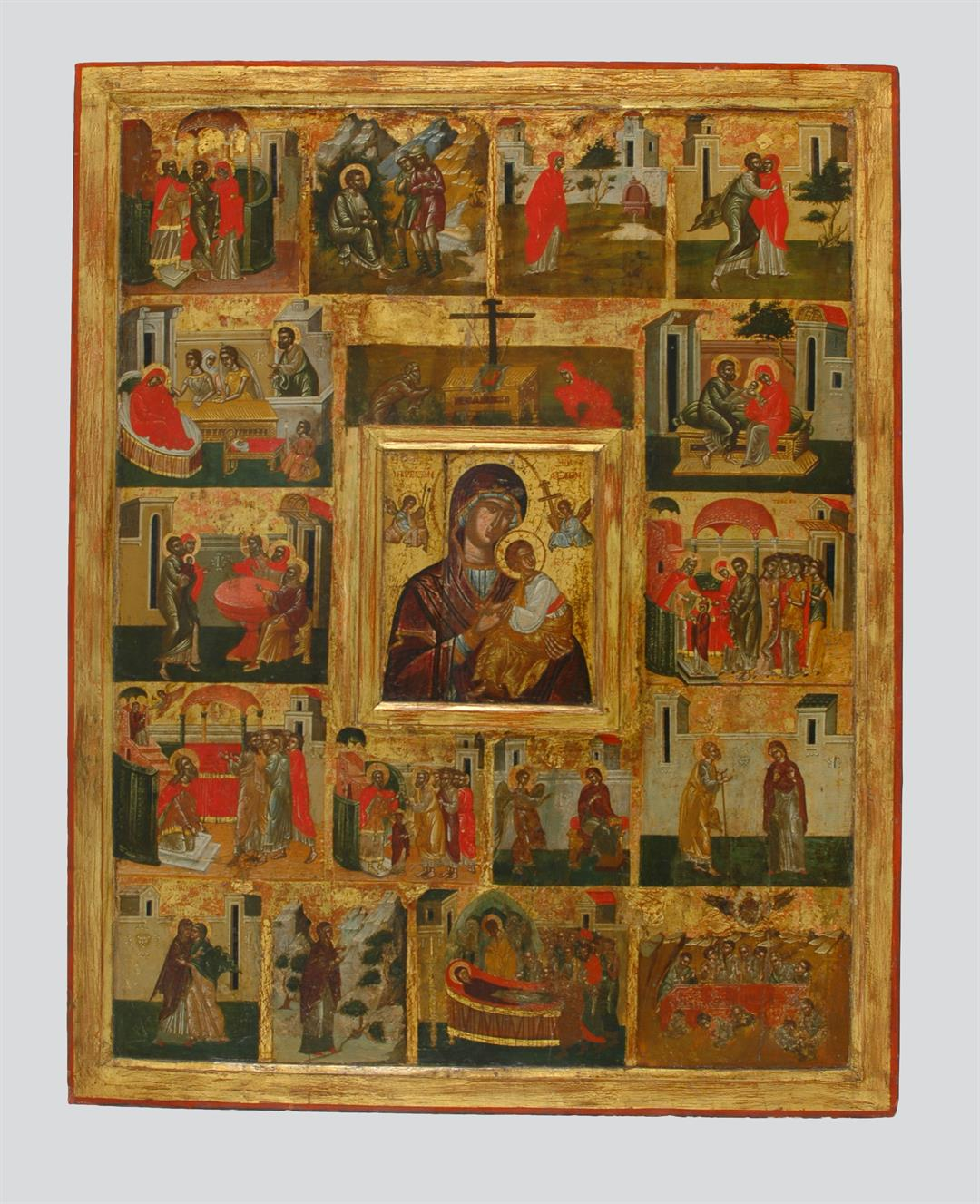 Saint Anna and scenes from the Life of the Virgin. A walled garden with a fountain, trees and plants. Detail from the prayer of Saint Anna, the mother of the Virgin in a portable Cretan icon depicting scenes from the Life of the Virgin. Origin: Crete Island Measurement: 114 x 89,5 cm Exhibit Number: ΒΧΜ 11536